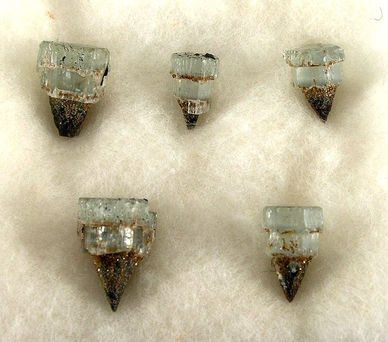 Beryl (Var.: Aquamarine) Locality: Erongo Mountain, Usakos and Omaruru Districts, Erongo Region, Namibia (Locality at ) These are just plain cute, tooth-like little beryls all showing dramatic etching effects which make them look more like teeth than like aquamarine. All floaters and all terminated! 5 Thumbnails, from 1.5 x 1.1 x 1.0 to 1.0 x 0.7 x 0.6 cm